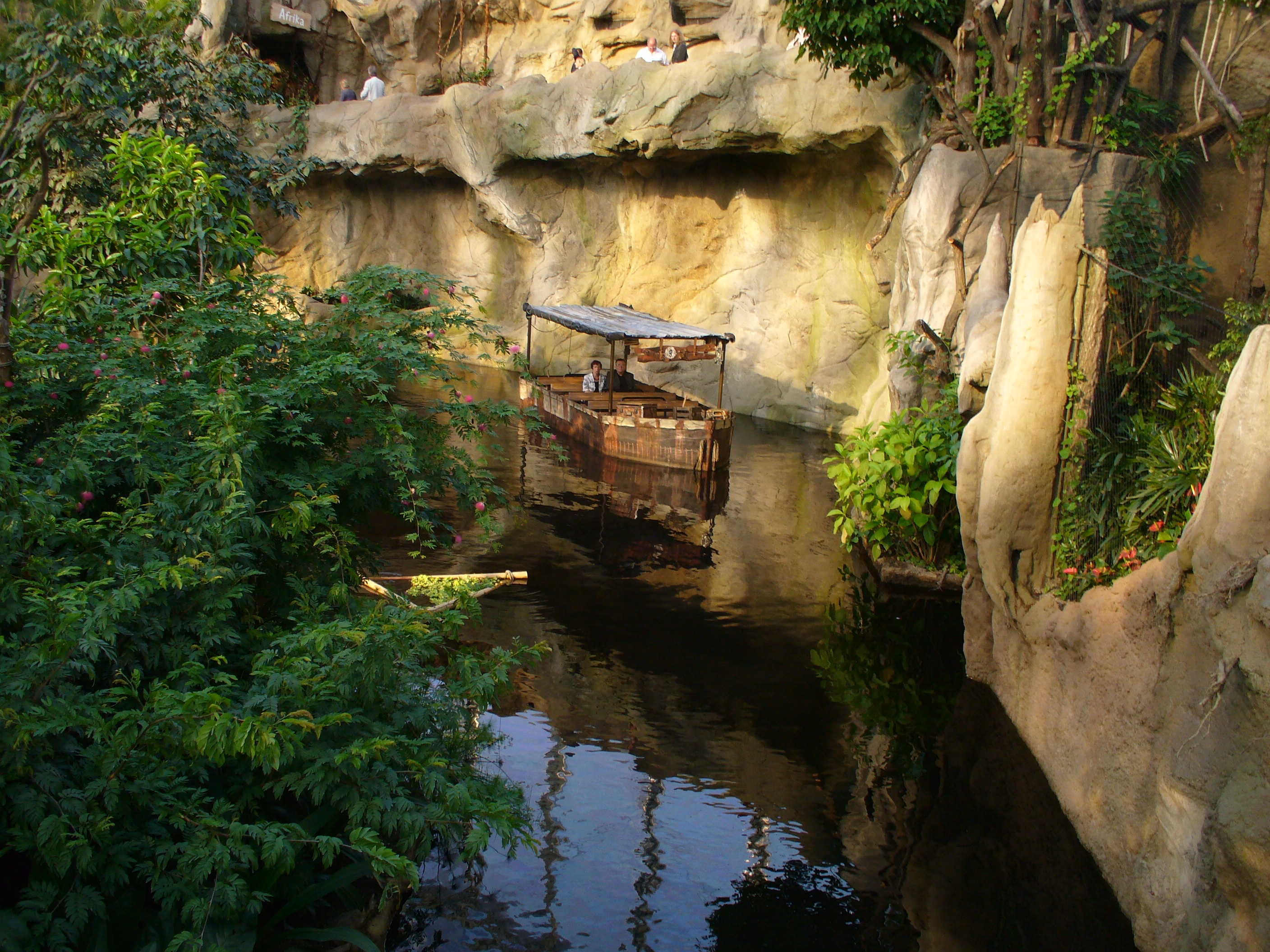 Opening of Gondwanaland, Zoo Leipzig, Germany, 30 June 2011